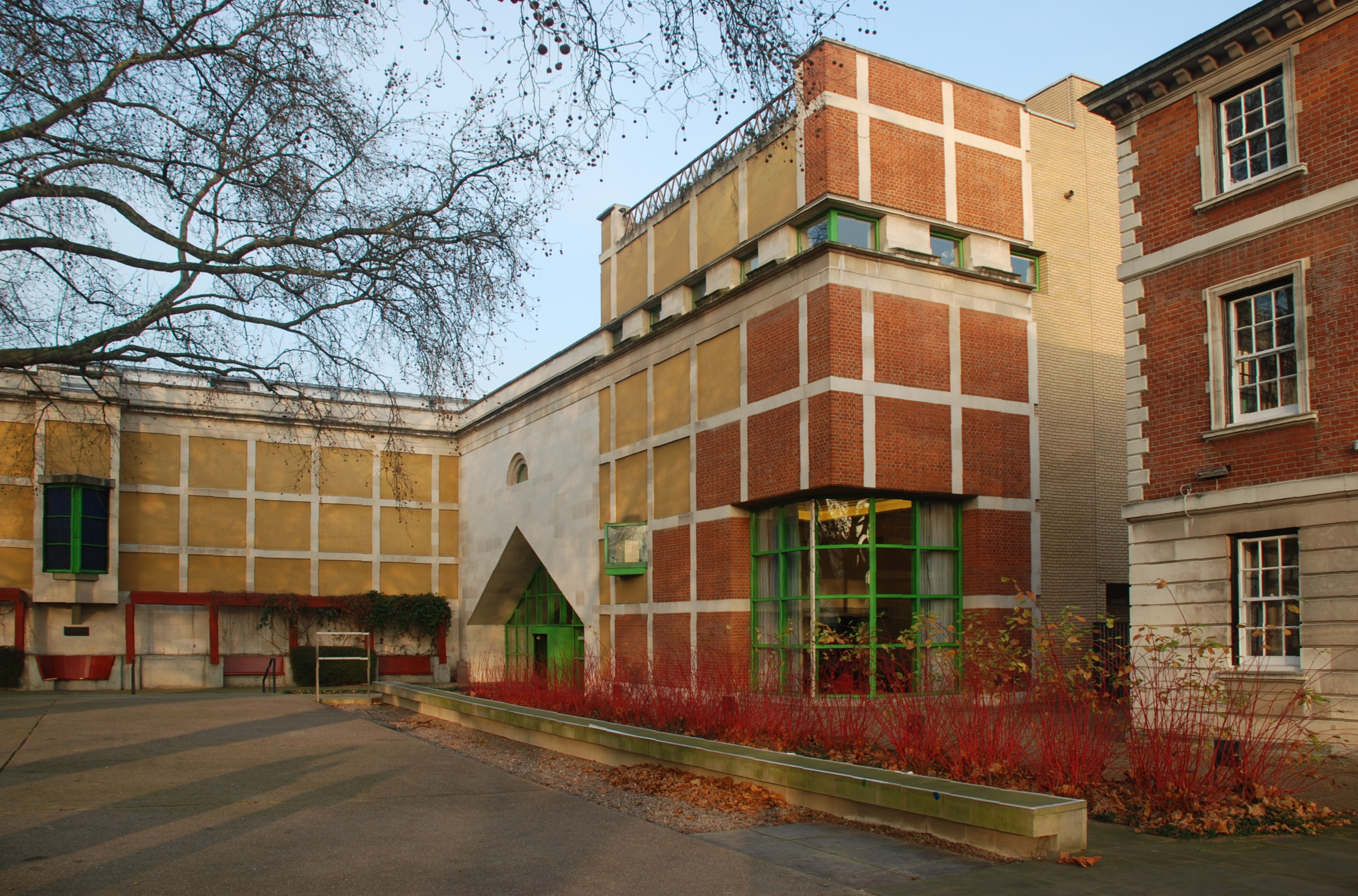 Clore Gallery London, built as an extension of Tate Britain (1980-87). Design by architect James Stirling. Photo taken from the East (Thames River side), in winter, at sunrise.